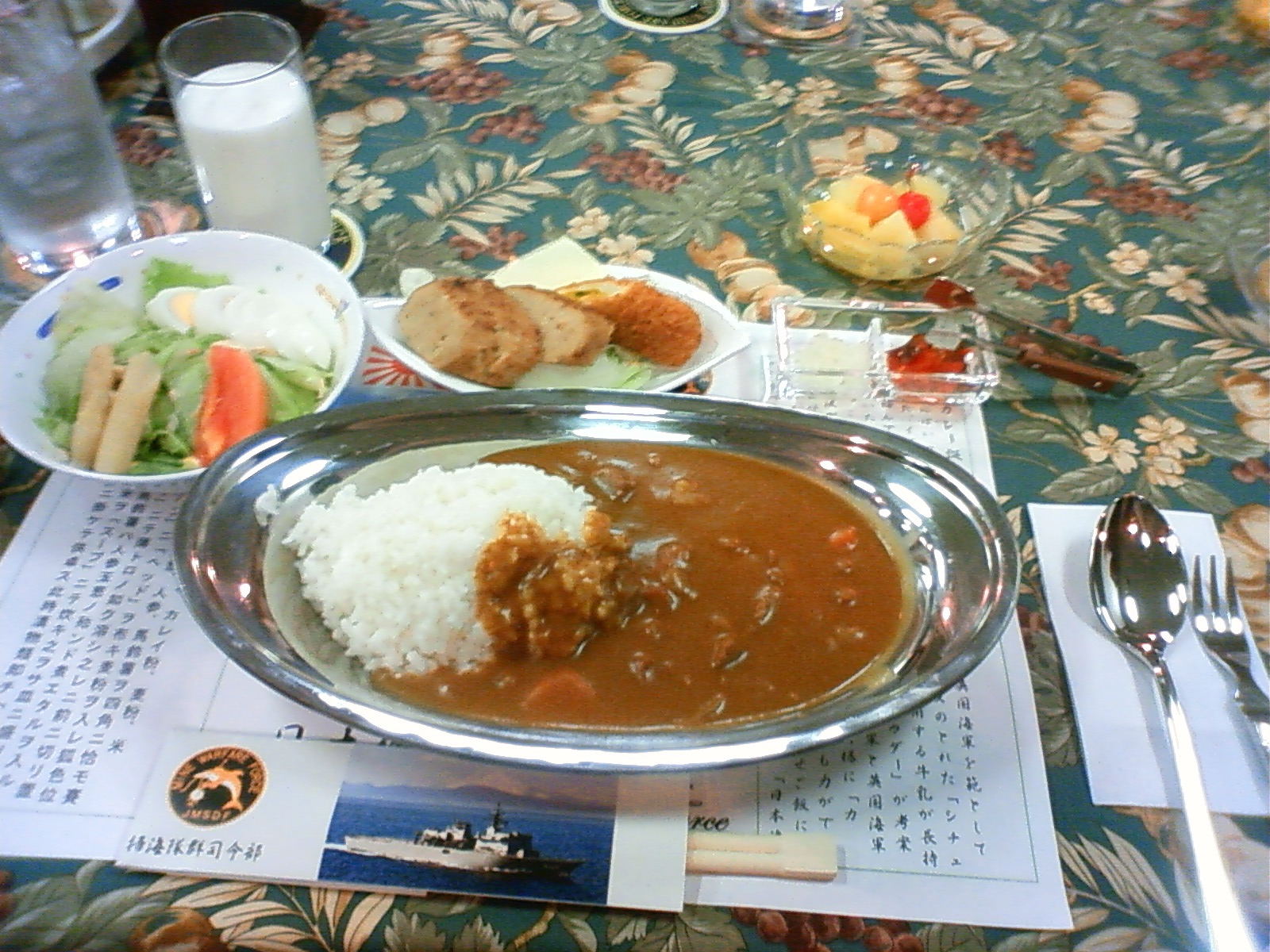 Curry rice lunch on board JS Uraga (MST-463).